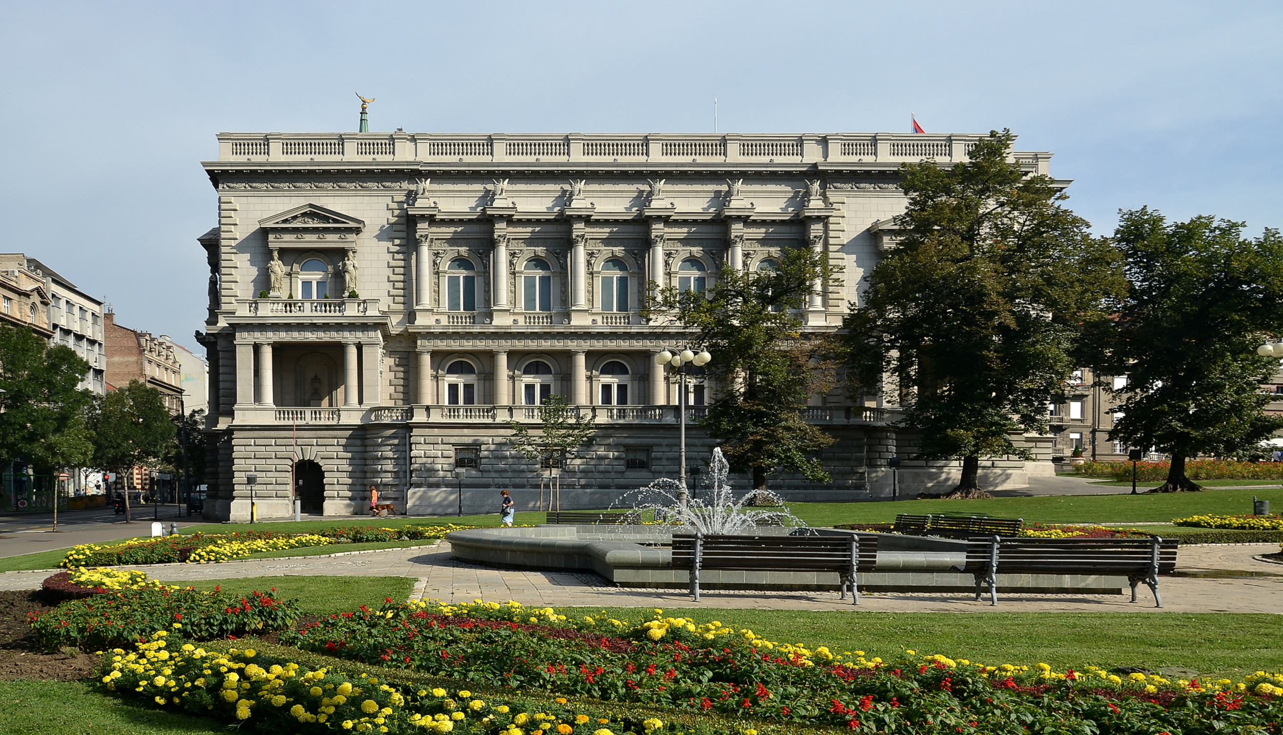 Old Palace in Belgrade